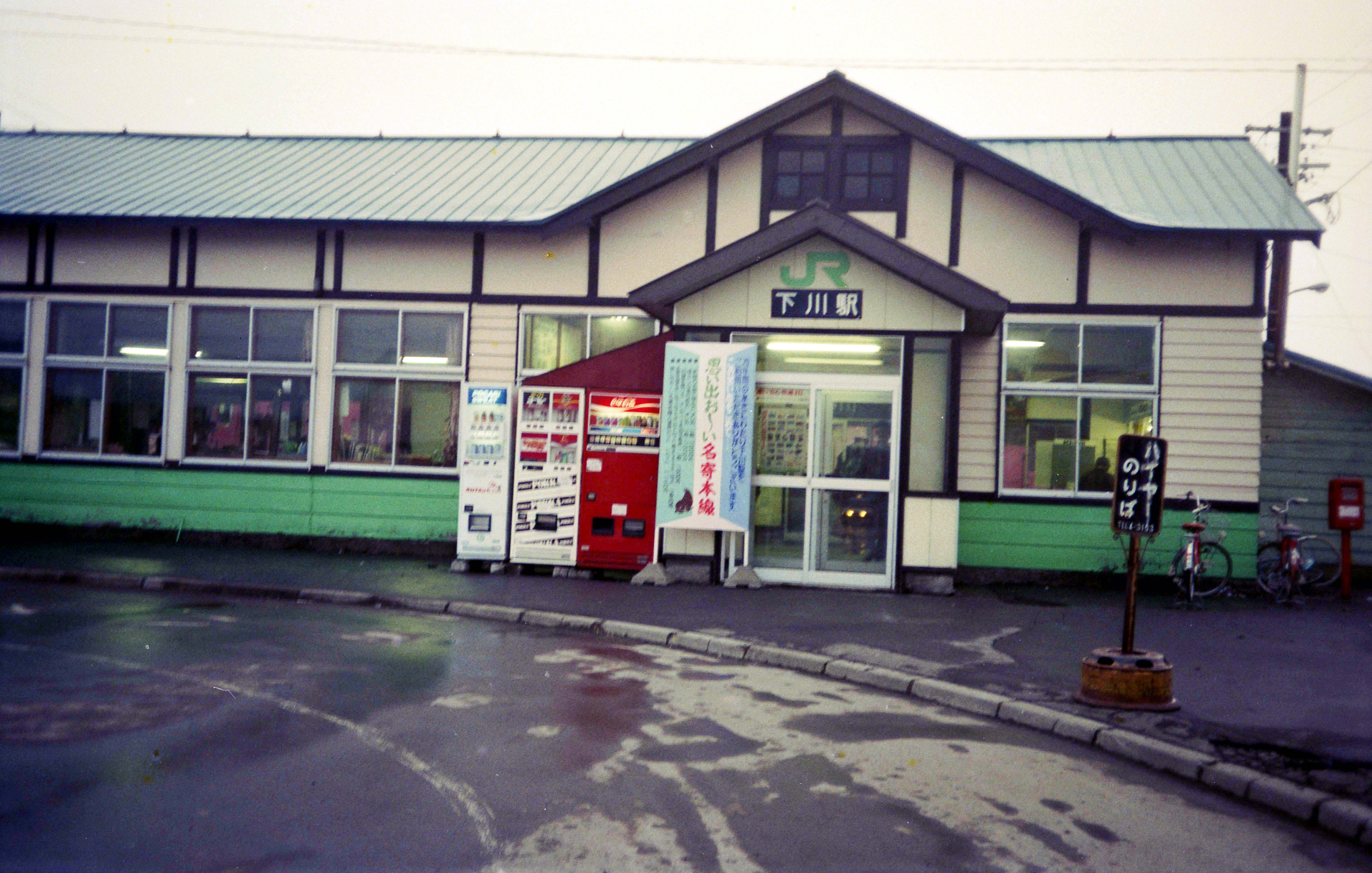 The building of Shimokawa Station,Hokkaido Railway Company Nayoro Main Line(before abolished)